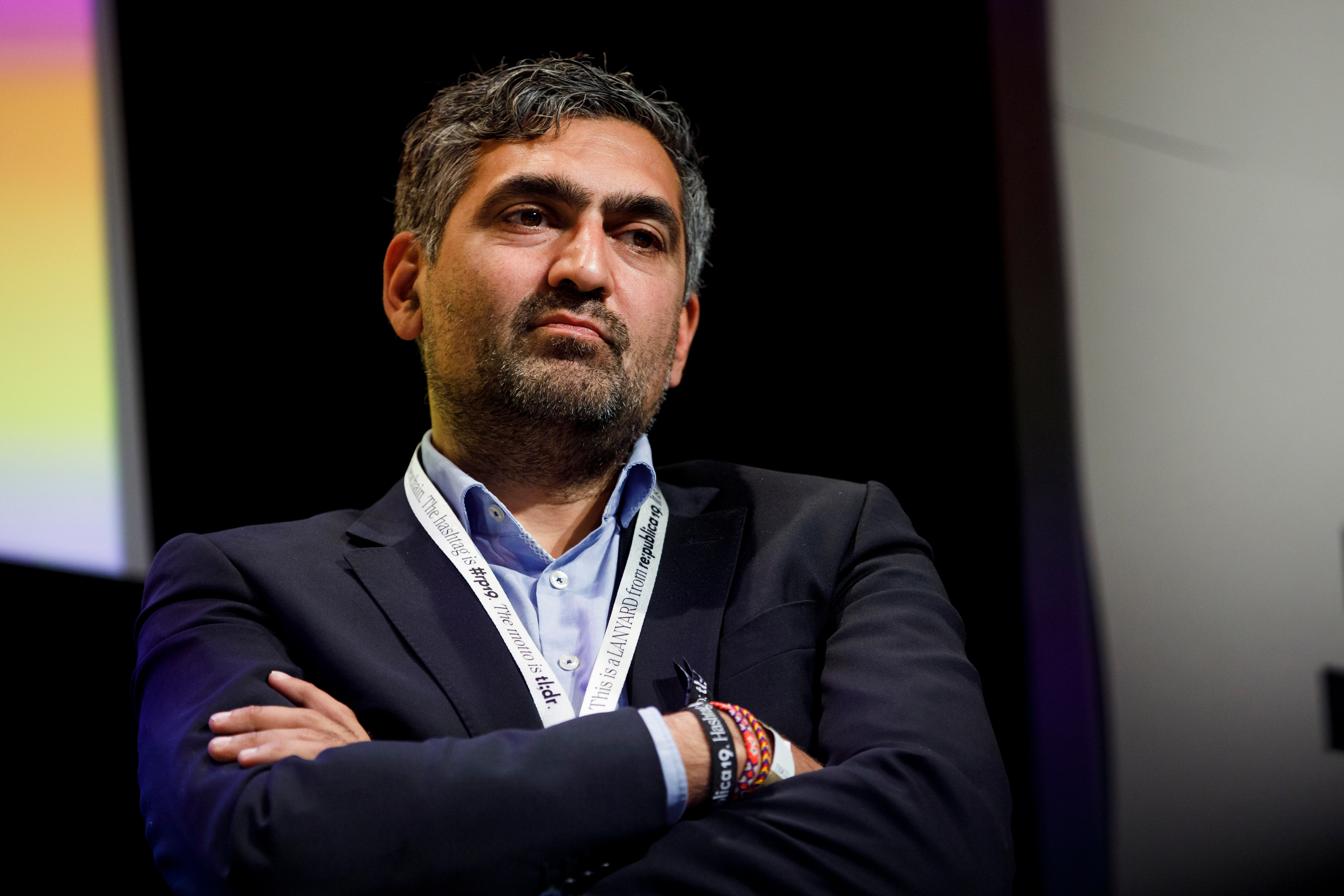 Session: Ein Jahr #MeTwo - Was los? Vorbote eines Civil Right Movements! Speaker: Farhad Dilmaghani, Marijana Bogojevic, Malcolm Ohanwe, Juliane Metzker, Ali Can